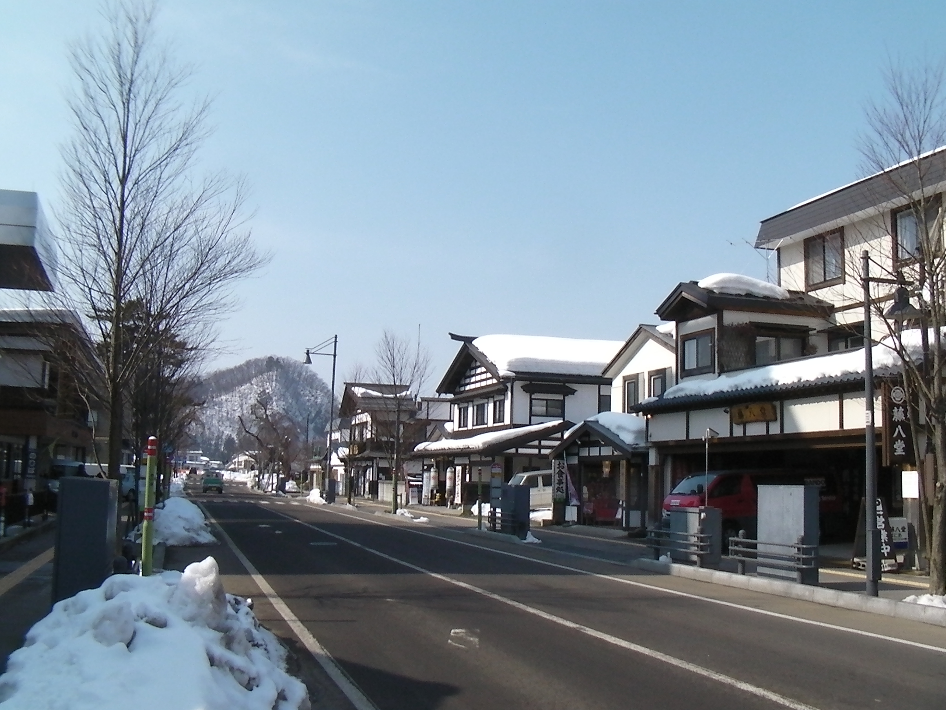 a commercial street in Kakunodate, Akita Prefecture, Japan